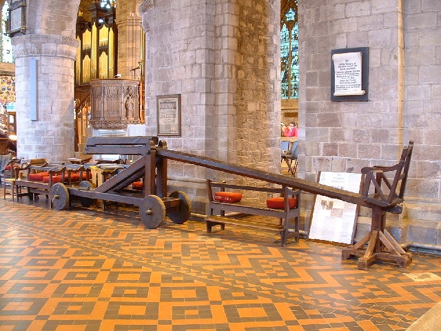 The Ducking Stool at Leominster. Last used in 1809. A fascinating history.